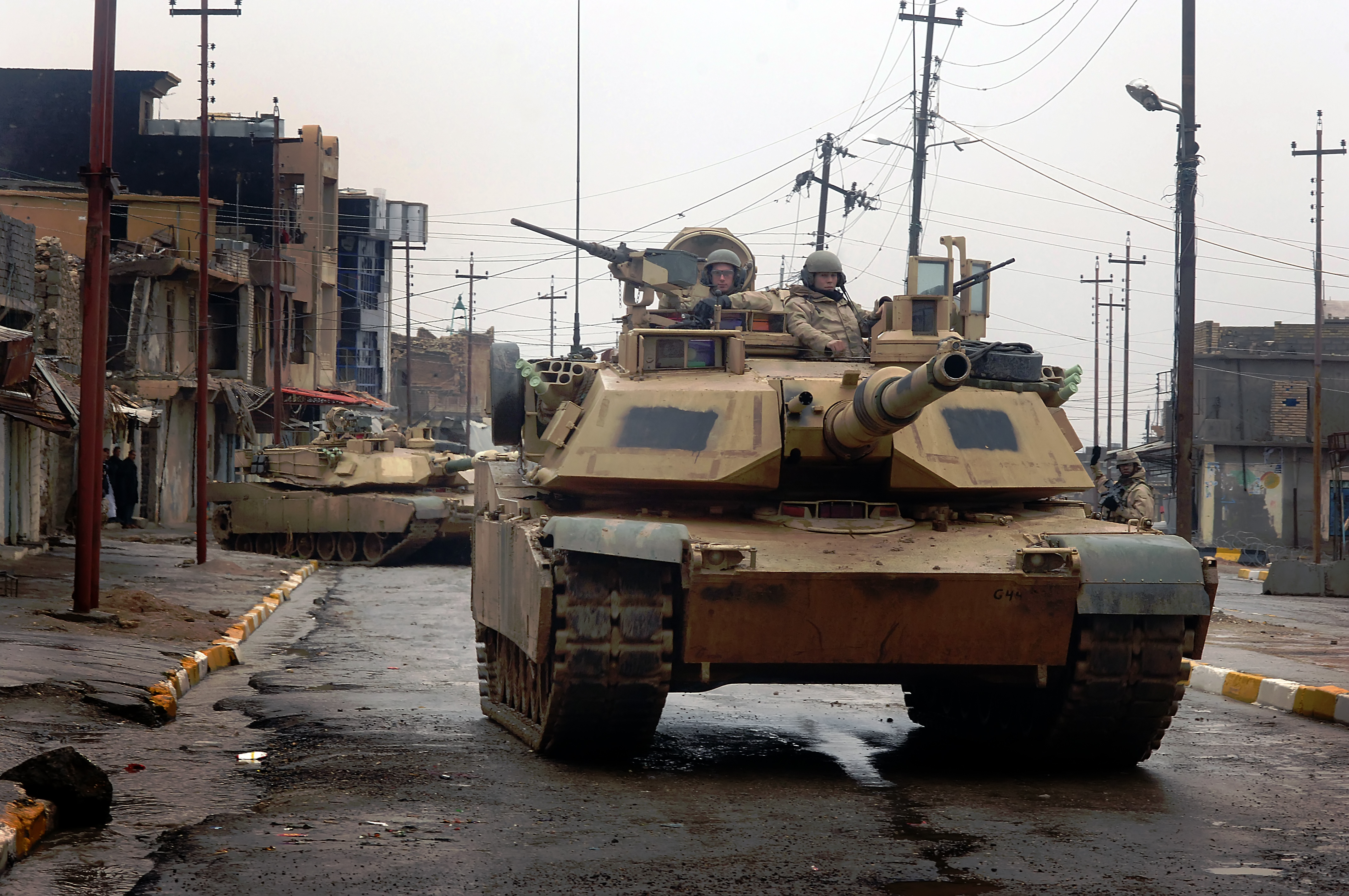 U.S. Army M1A2 Abrams tanks maneuver in the streets as they conduct a combat patrol in the city of Tall Afar, Iraq, on Feb. 3, 2005. The tanks and their crews are attached to the 3rd Armored Cavalry Regiment. DoD photo By Staff Sgt. Aaron Allmon, U.S. Air Force. (Released) (Released to Public)